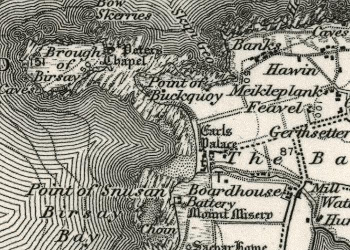 Map of Buckquoy, Earls Palace and Brough of Birsay, Orkney Ordnance Survey, One-inch to the mile maps of Scotland 3rd Edition, Part of Sheet 119 (Kirkwall)